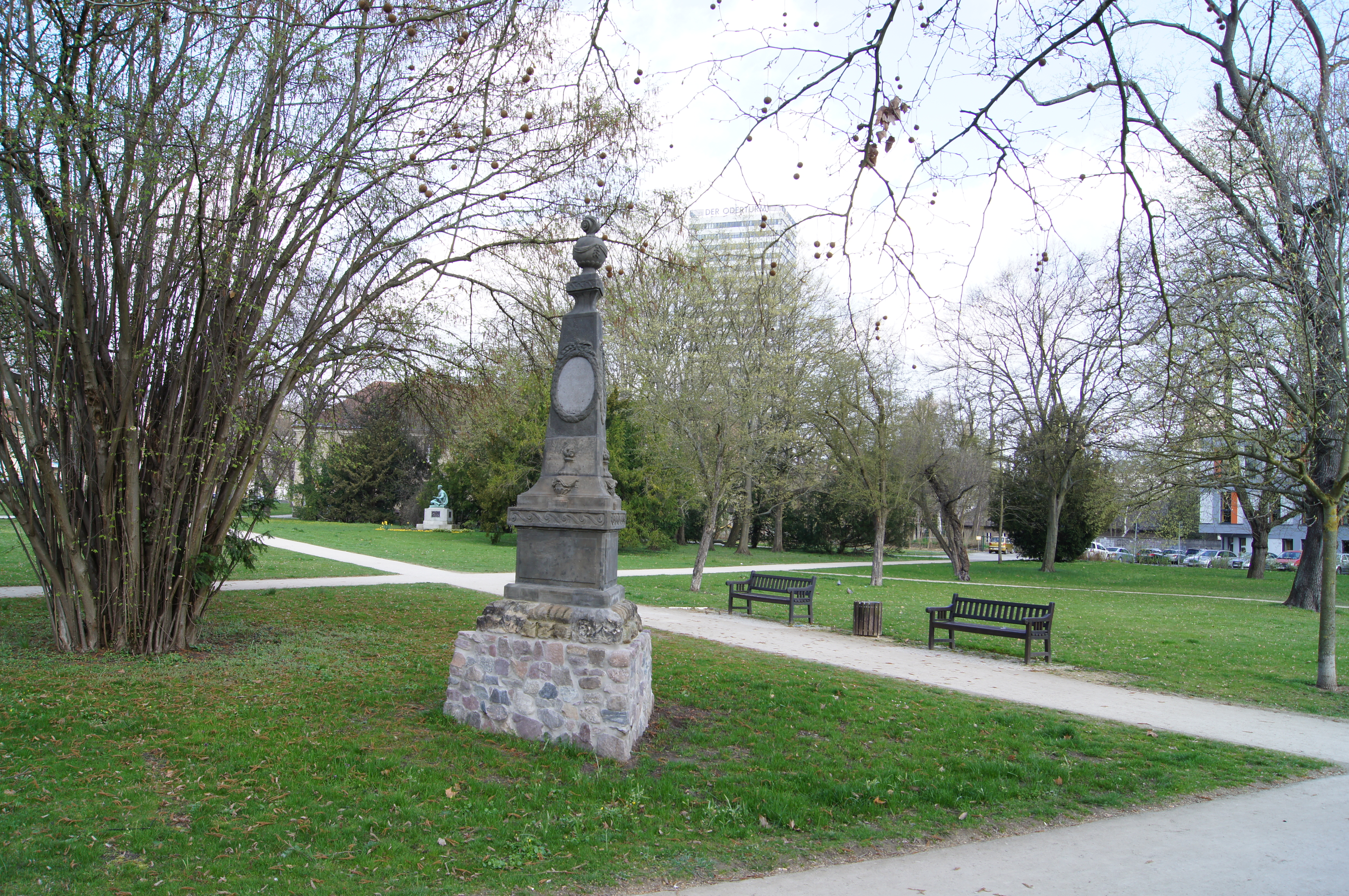 Park an der St. Gertraudkirche Frankfurt (Oder), Brandenburg, Germany